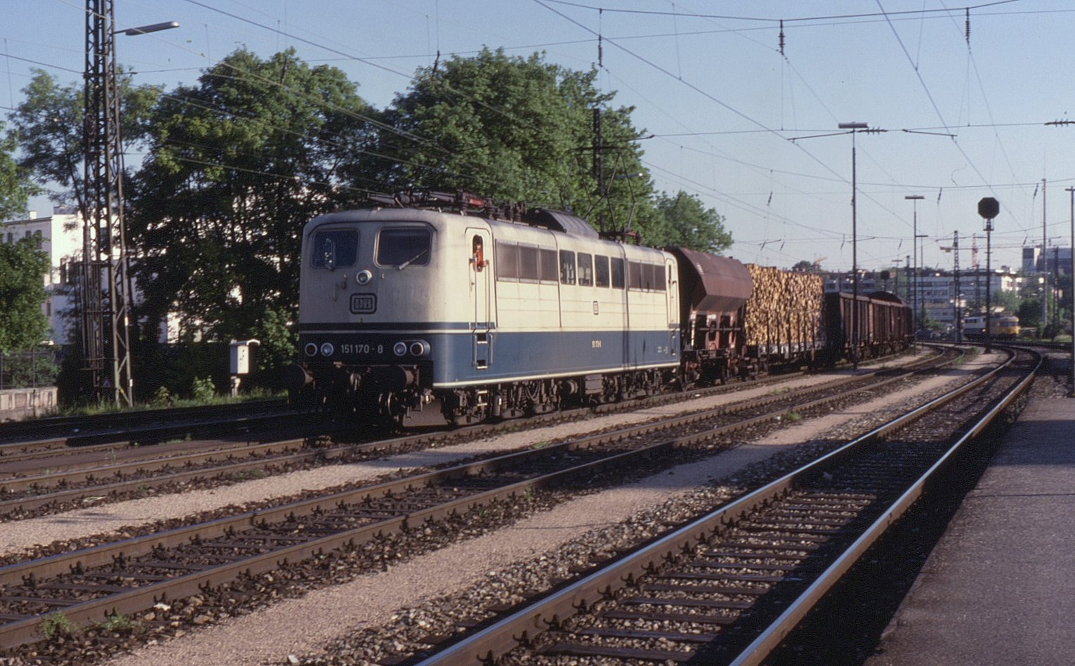 Passing through Augsburg Morellstraße station (one stop from the Hbf) is 151.170 onb a freight. Photographed on 24 May 1989.